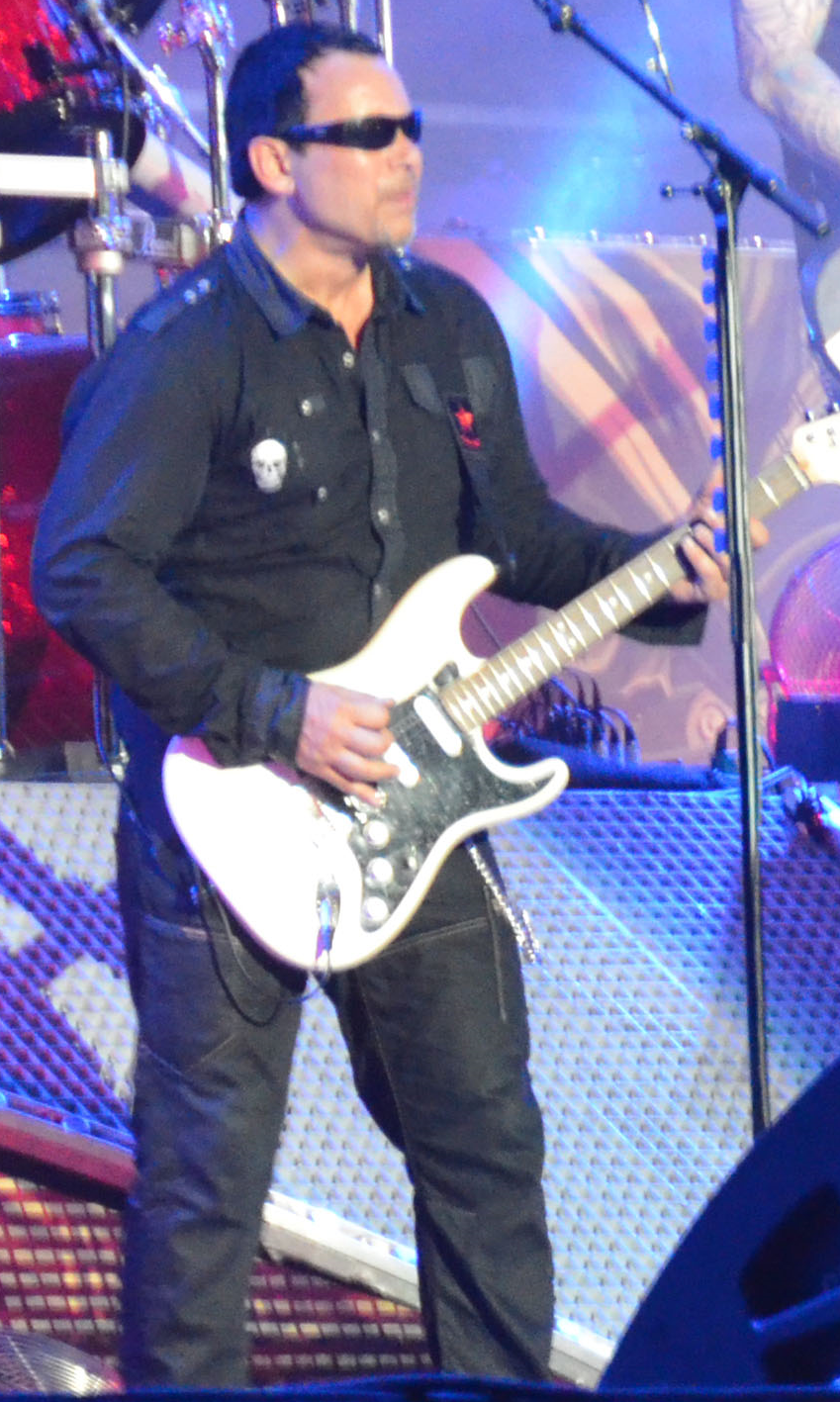 Danish guitarist Hank Shermann performing live with Volbeat.